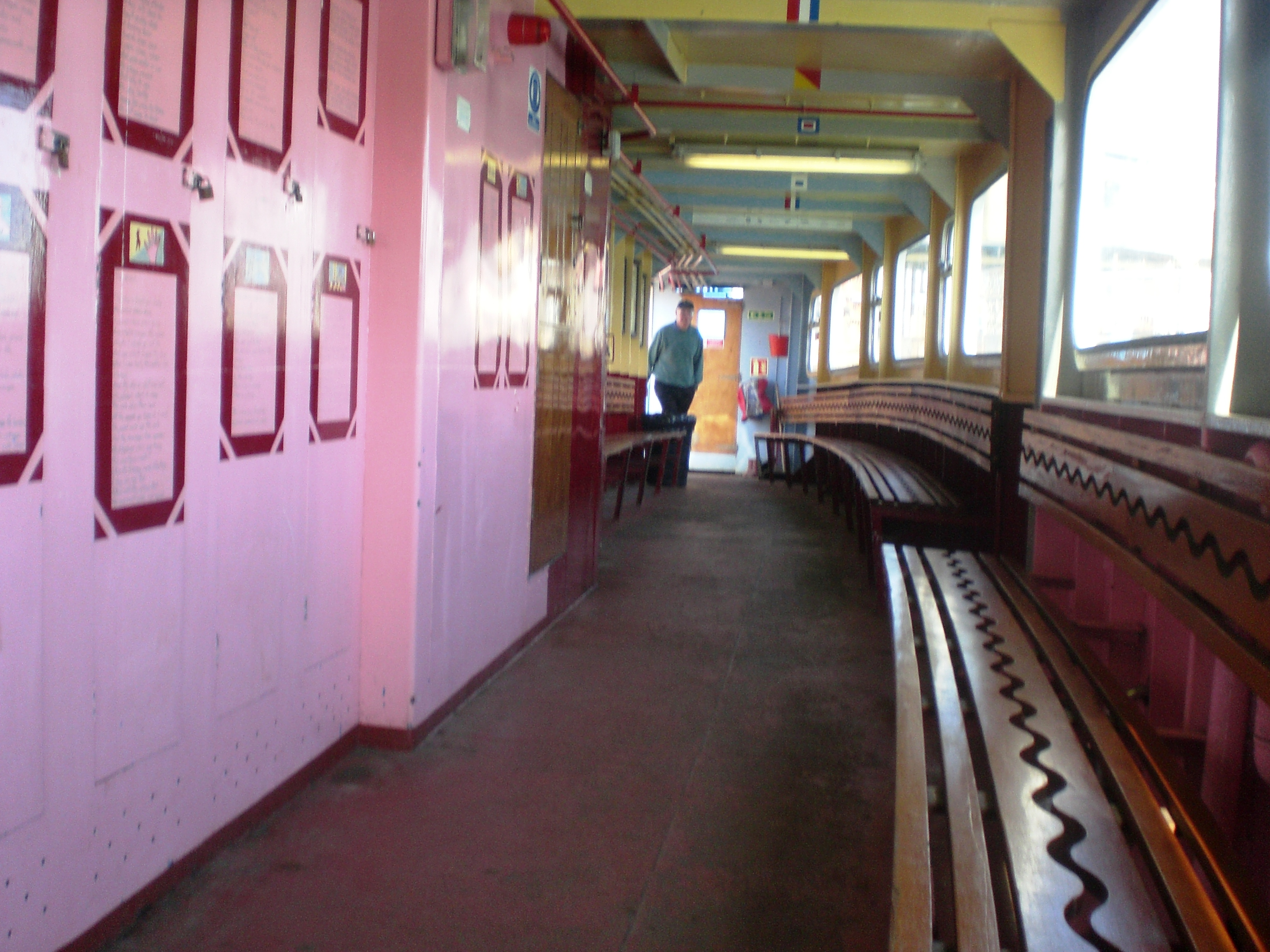 The interior of the Cowes Floating Bridge, which operates between Cowes and East Cowes on the Isle of Wight.